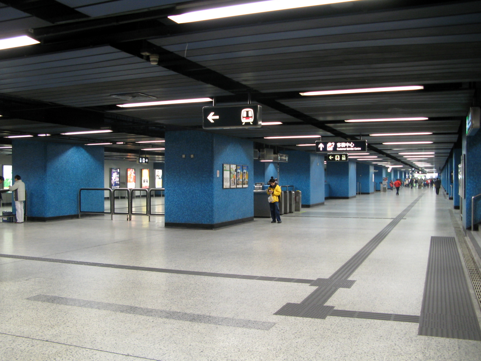 Lam Tin Station Concourse 藍田站